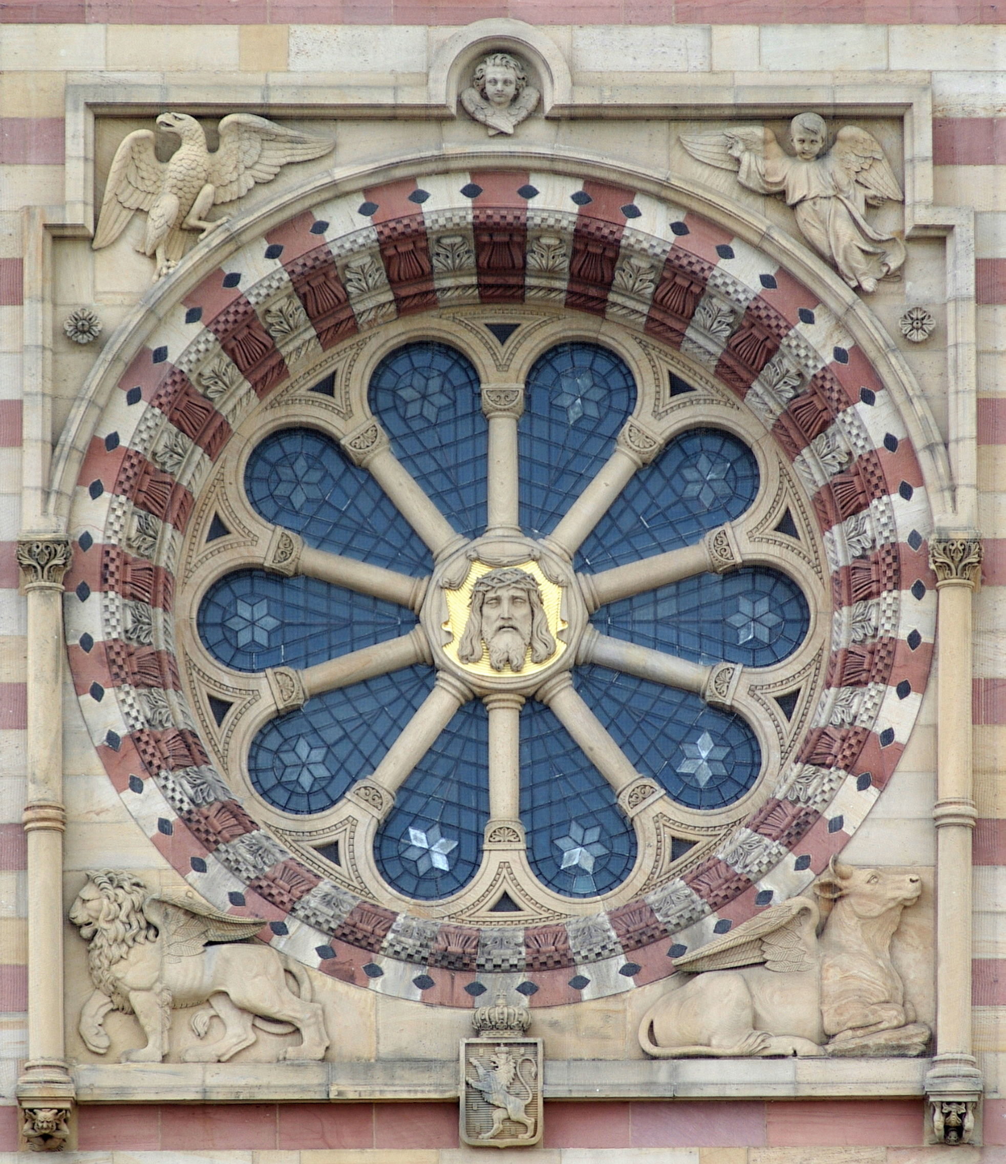 Germany, Rose window at the cathedral of Speyer